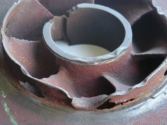 Wreckage of a centrifugal pump impeller on account of cavitation